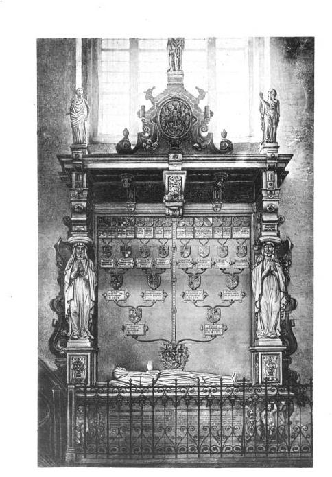 Epitaph for Ursula of Mecklenburg, abbess of Ribnitz (1590), workshop of Philipp Brandin, scan of photo in Friedrich Schlie: Kunst- und Geschichts-Denkmäler des Grossherzogthums Mecklenburg-Schwerin. Band 1: Die Amtsgerichtsbezirke Rostock, Ribnitz, Sülze-Marlow, Tessin, Laage, Gnoien, Dargun, Neukalen. 2. Auflage, Schwerin 1898, p. 360